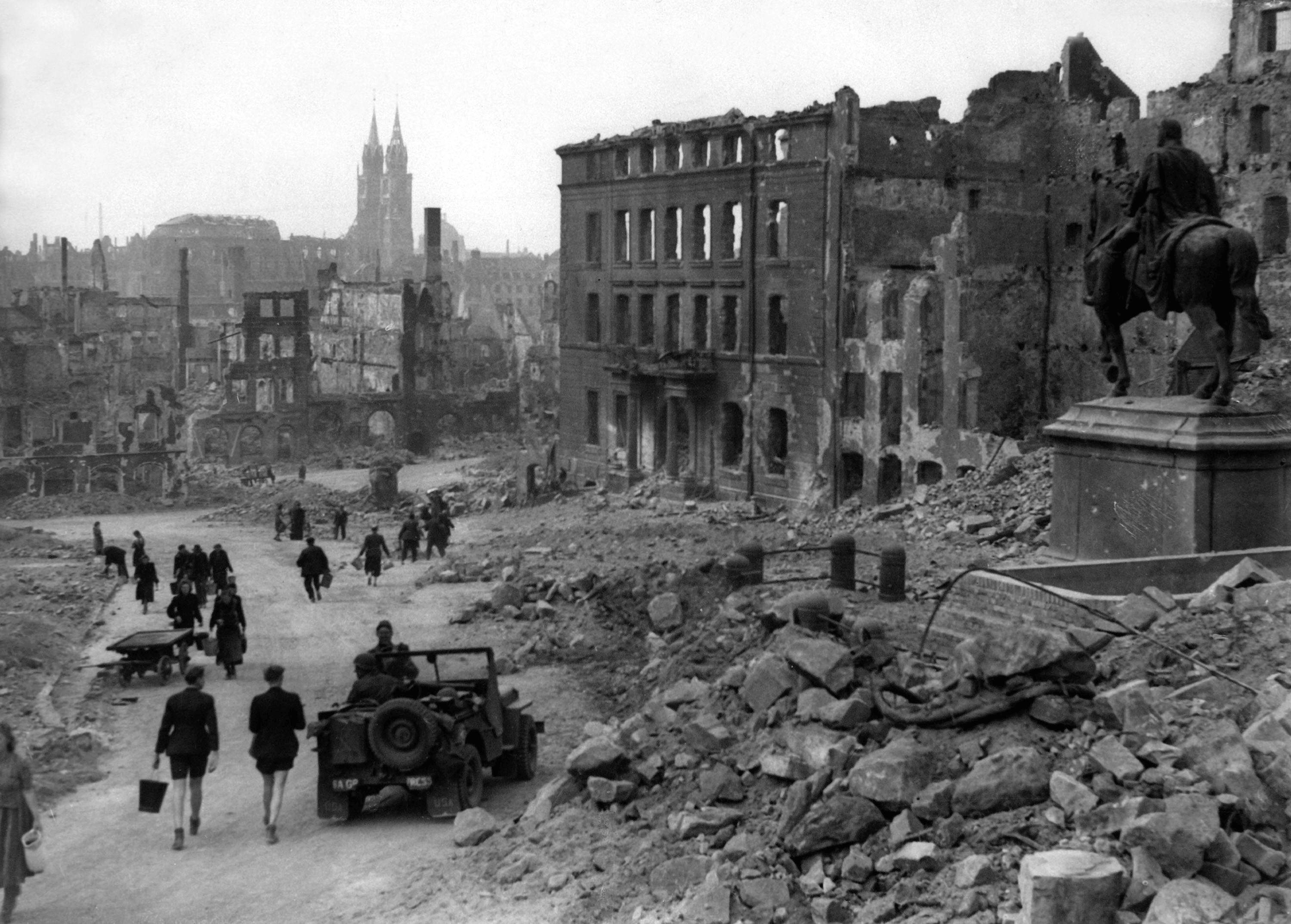 General view of the Bavarian city of Nuremberg, following the cessation of organized resistance. In the distance, the twin-spired Lorenz Church; on the right and surrounded with rubble is a statue of Kaiser William I. ID: HD-SN-99-02987